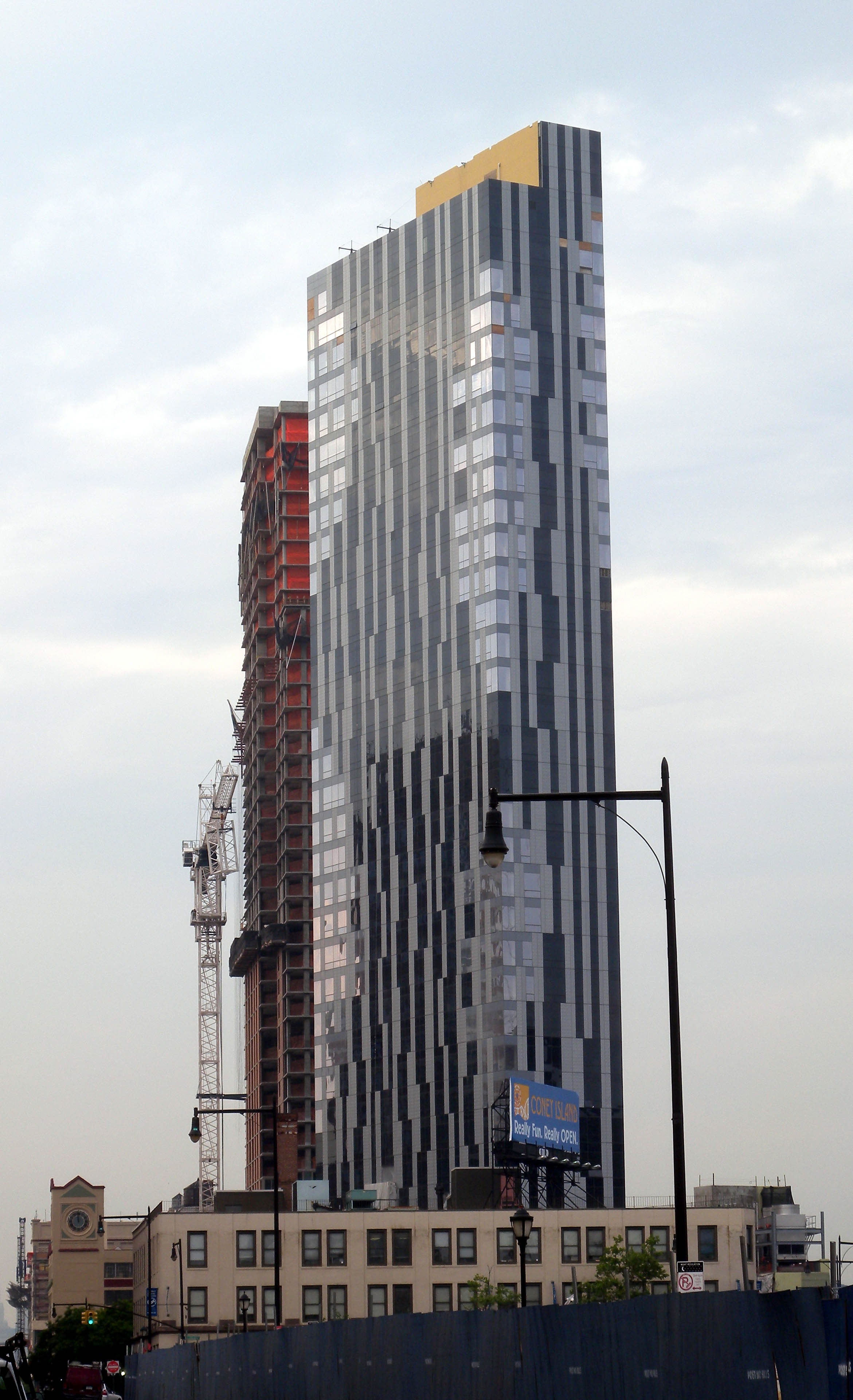 Looking north from DeKalb Avenue along Albee Square / Gold Street at "Toren 150" apartment house under construction at 150 Myrtle Avenue on the east side of Flatbush Avenue Extension, late on a mostly cloudy day. See also File:Toren 150 from Willoughby jeh.JPG.